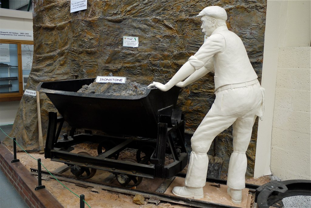 Panasonic G1 14-45 Lens